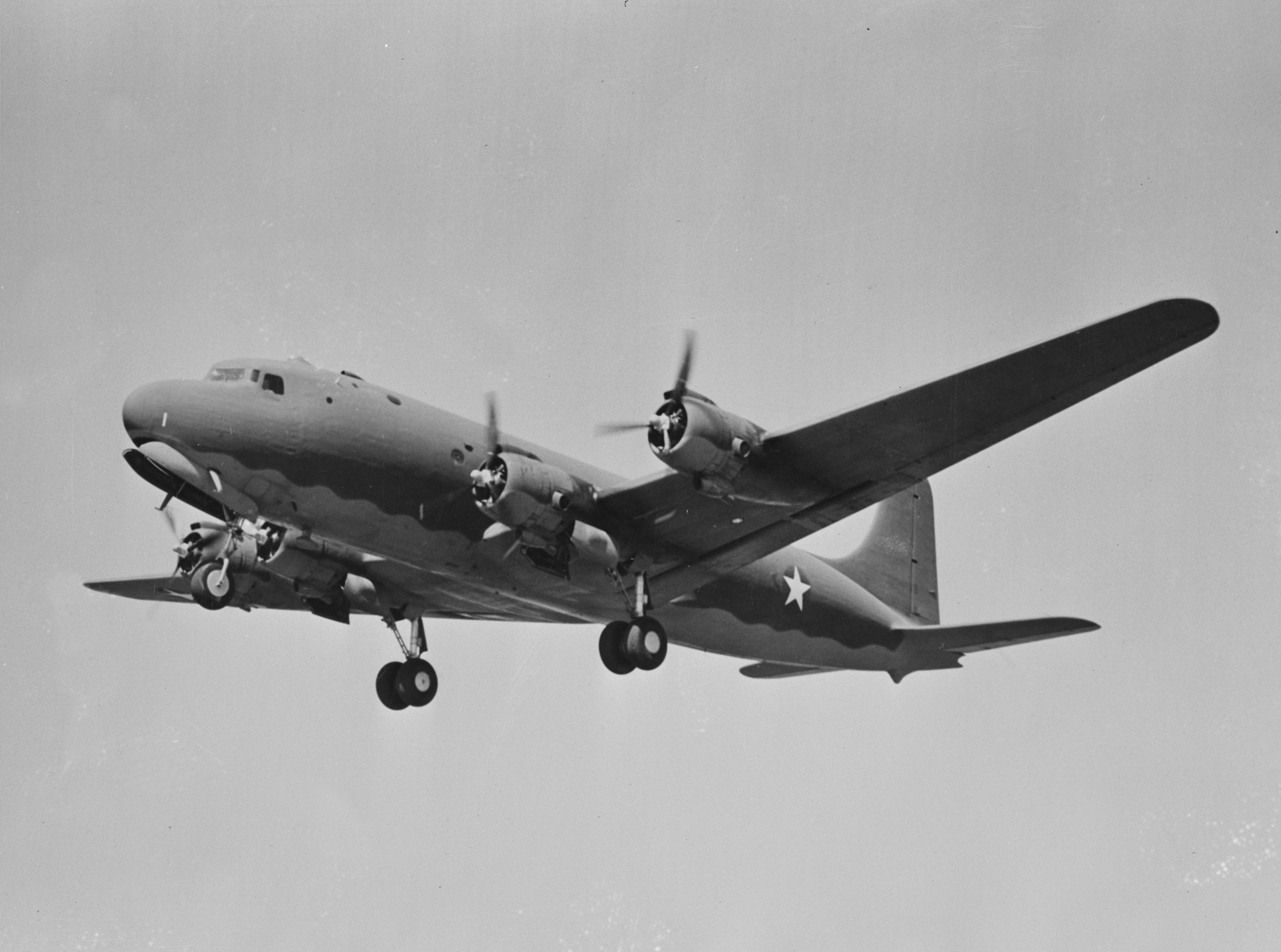 A USAAF Douglas C-54 Skymaster transport plane landing, ca. late 1942/early 1943. Note that the wartime censor has removed the serial number.